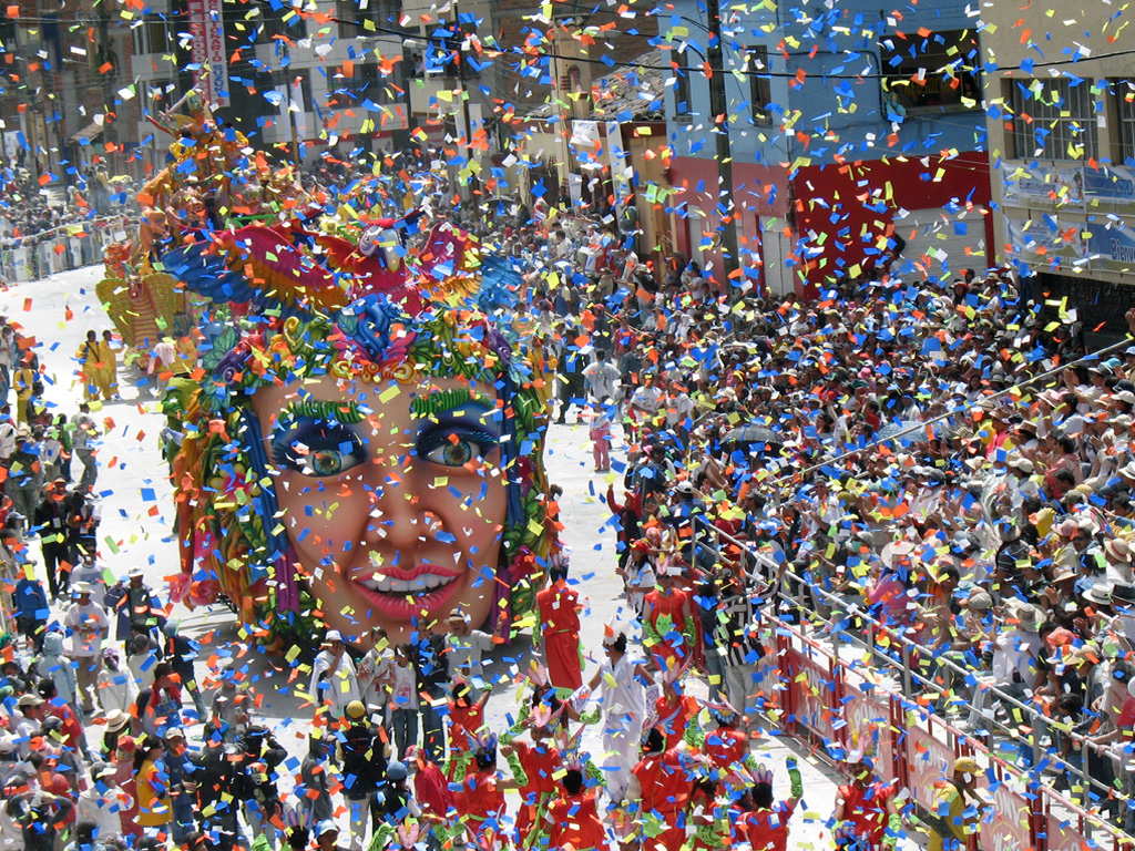 Blacks and Whites Pasto Carnival Alegory, Dioses Ancestrales by Hugo Moncayo, 2007